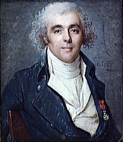 Portrait of Jean-Charles-Joseph Laumond (1753-1825)